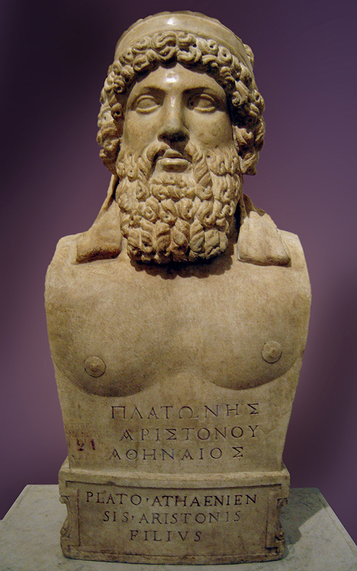 Herma of Plato, Musei Capitolini, Rome